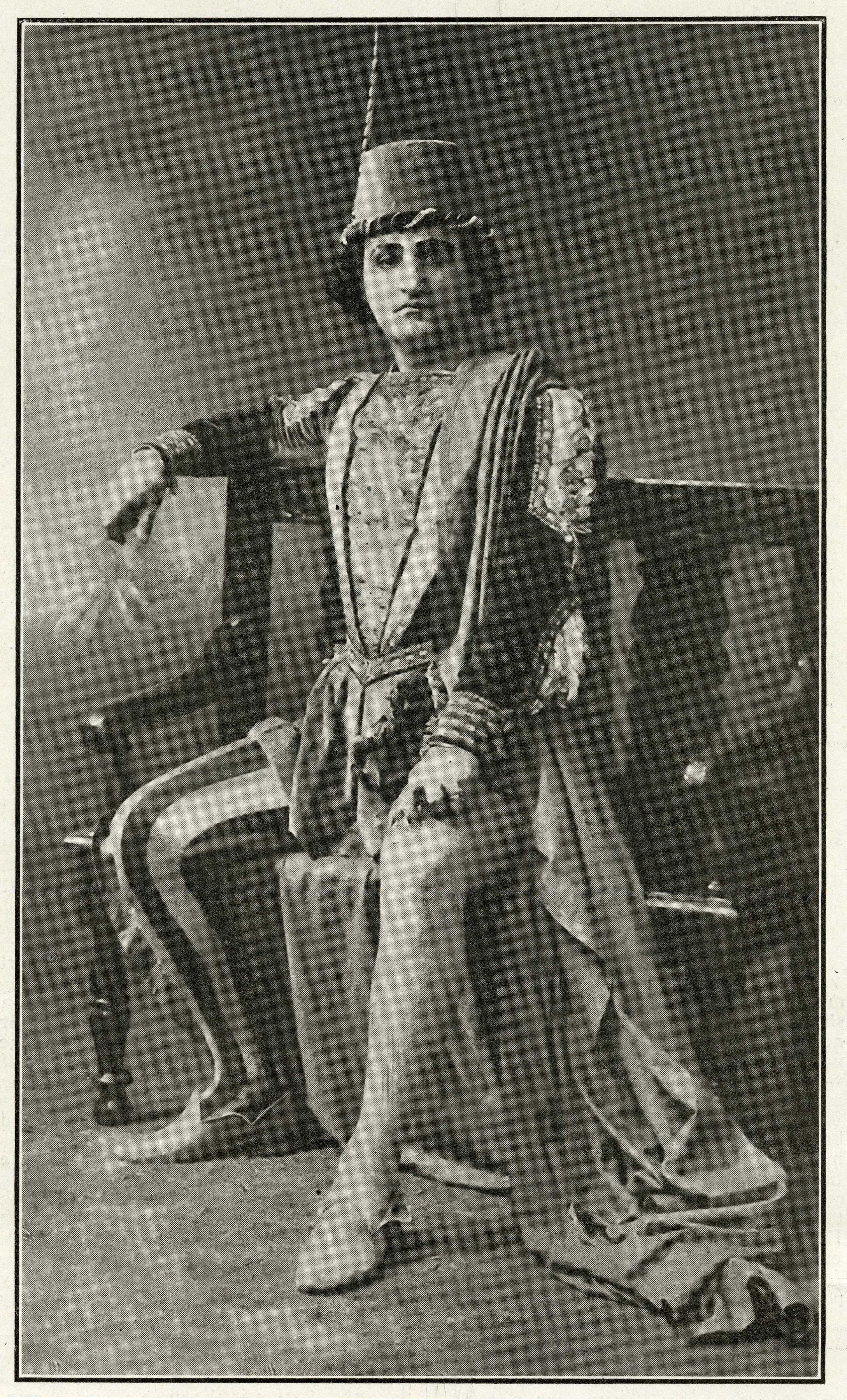 Photo of French baritone Dinh Gilly on the front page of an issue of Musical America. The text under the photo reads: DINH GILLY AS "ROMEO" Franco-Algerian Baritone of the Metropolitan Opera Company, Who Has Won a Distinguished Position Among Contemporaneous Operatic Artists by His Rare Vocal and Histrionic Ability.